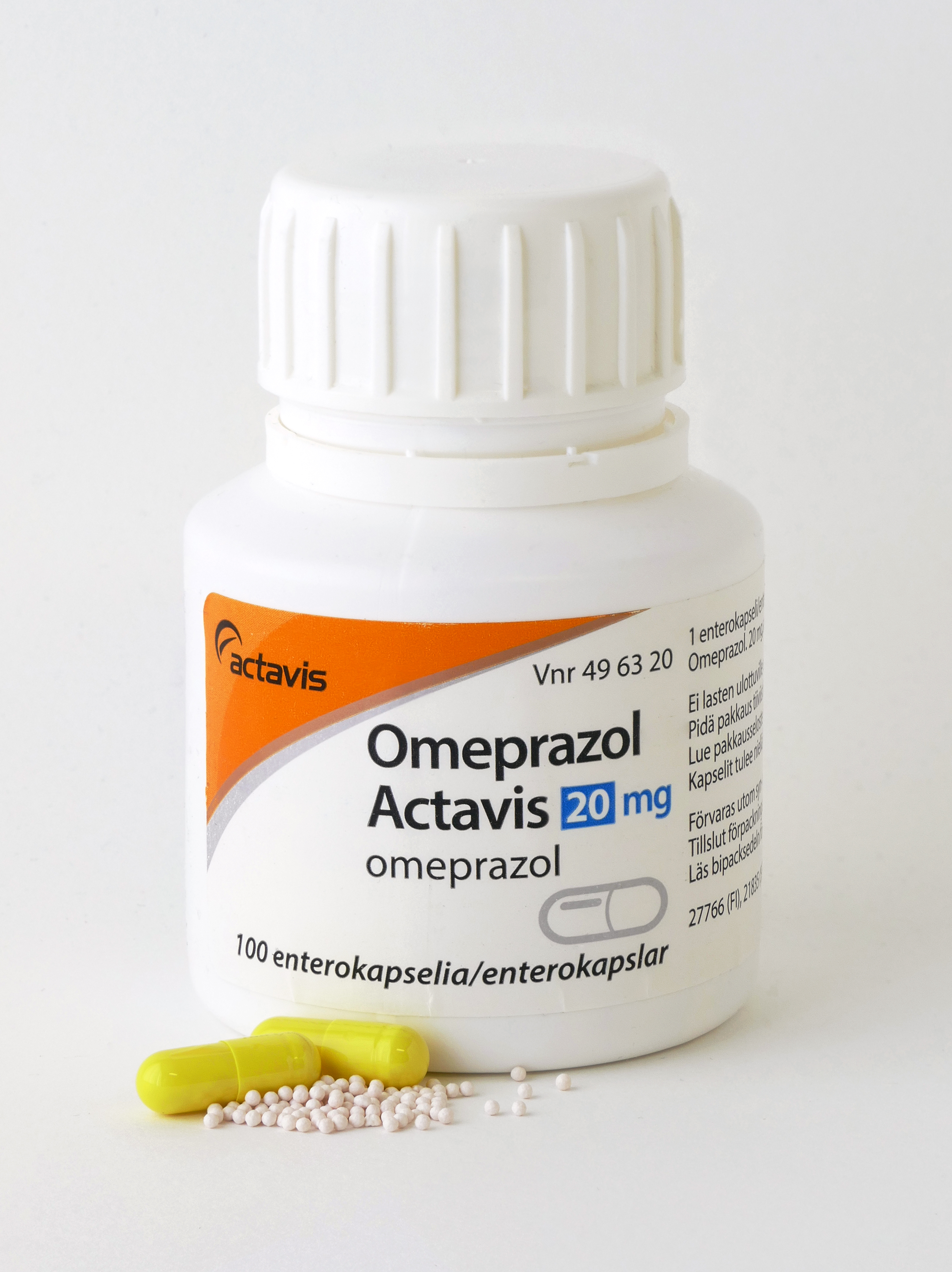 Omeprazol Activis 20 mg in Sweden. Bottle, pills and grains from an opened capsule.